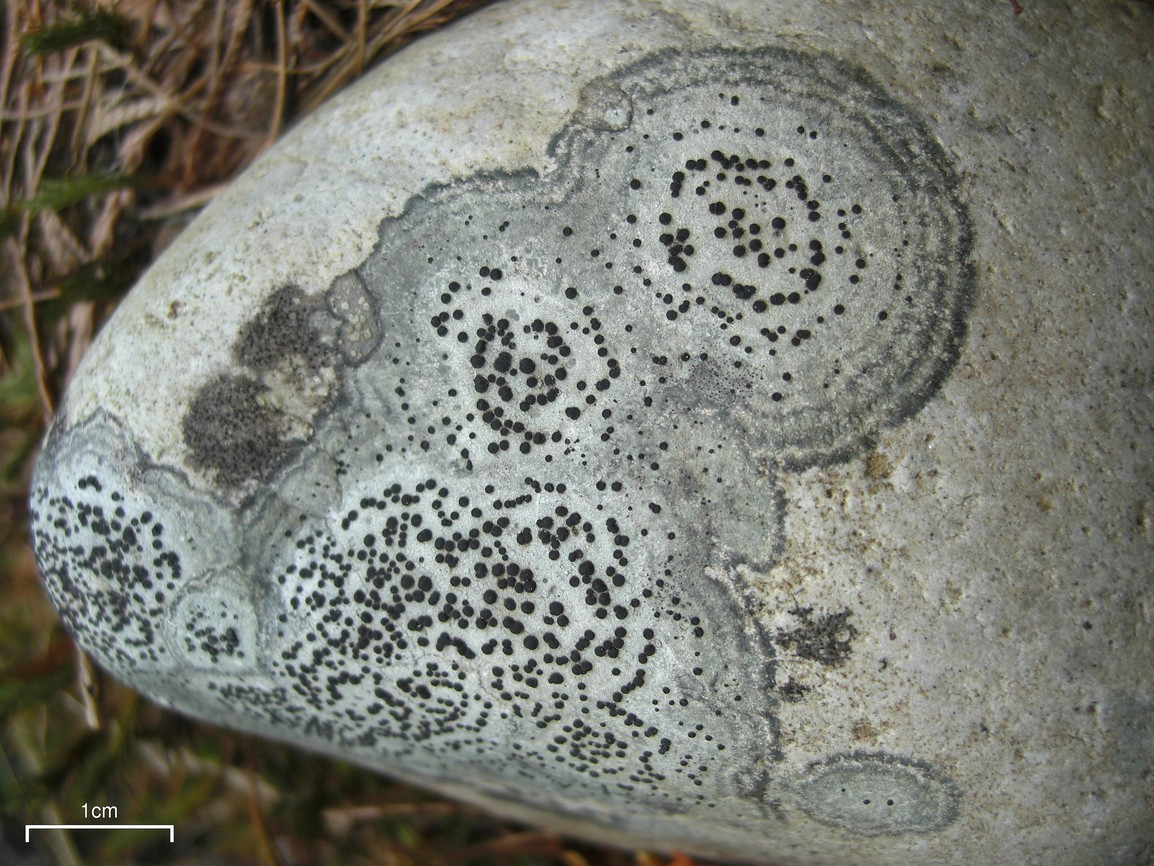 Porpidia crustulata 20090929.30 US, MT, Cabinet Mountains, Bull River